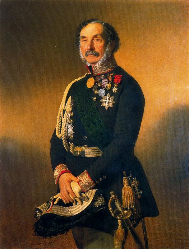 Portrait of count Teodoro Lechi